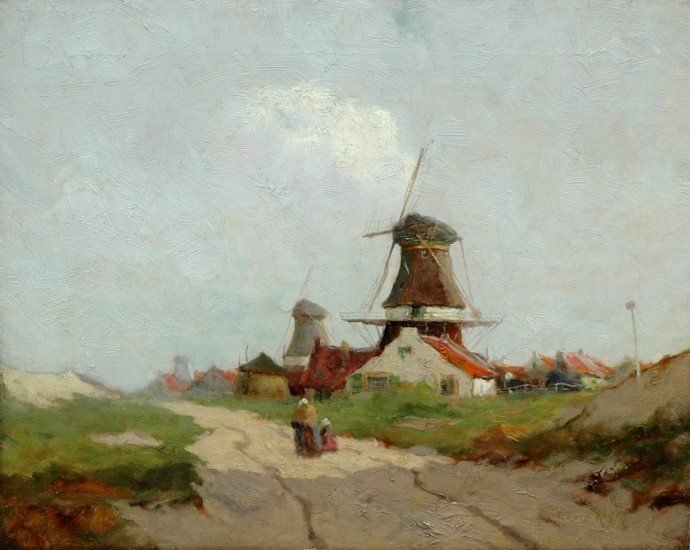 De molens van Leidschendam